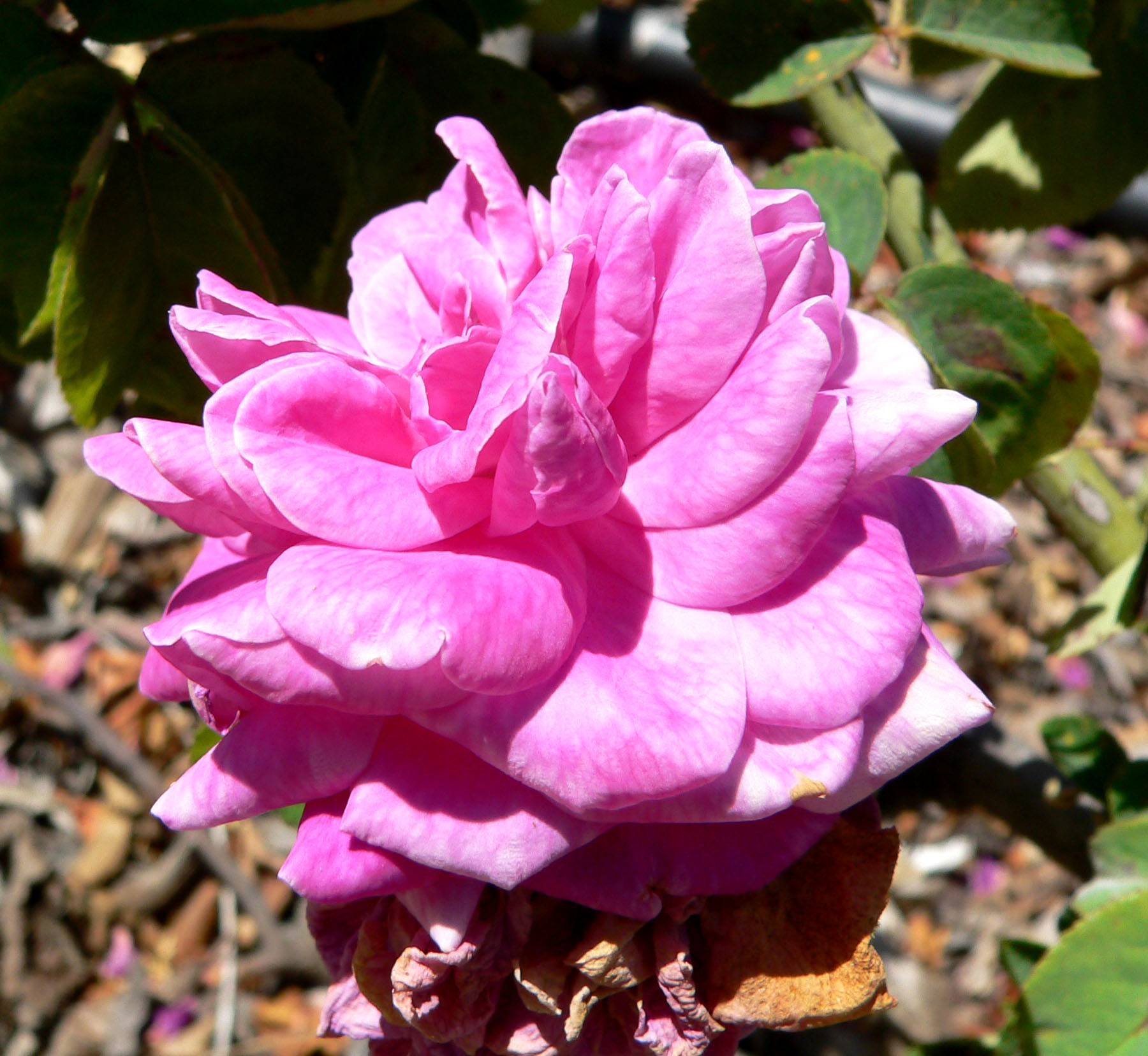 Rosa 'Souvenir de Lucie' at the San Jose Heritage Rose Garden